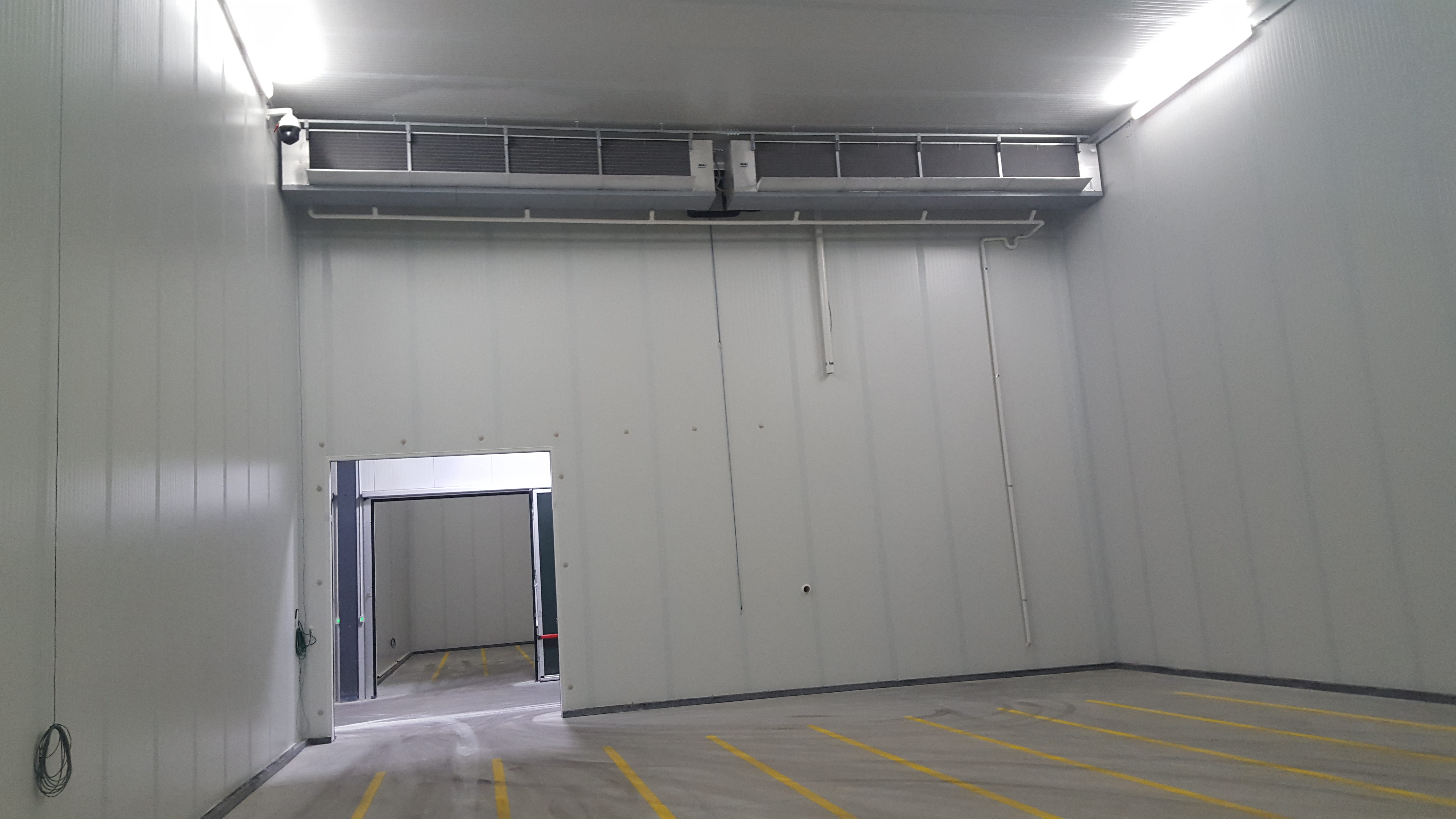 This is a view inside a Storage Control Systems, Inc controlled atmosphere room for apples